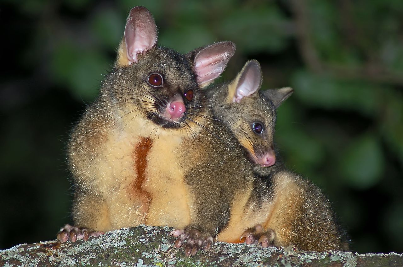 Brushtail Possum Trichosurus vulpecula with young Note: Author requires attribution by footnote if used on Wikipedia, footnote to link to his flickr page. Suggested use: Photo by [ Bryce McQuillan]